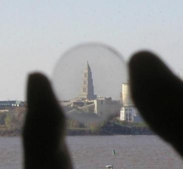 Transparent spinel (MgAl2O4) ceramic, which is superior to the glass, sapphire, and other materials traditionally used for applications such as high-energy laser windows and lightweight armor. NRL’s transparent spinel ceramic can also be paired with its patented BGG glass material, which offers excellent optical transmission in the visible and mid-infrared wavelength range and the low cost and ease of use and production offered by glass. Process scalability to large sizes and complex shapes and is strong, rigid, and environmentally durable with reduced manufacturing cost over existing technologies. It demonstrates high reproducibility, and high yield. Applications Include: Consumer electronics High energy lasers Transparent armor -- Public domain content in this description is from the U.S. Navy website (see source URL.)